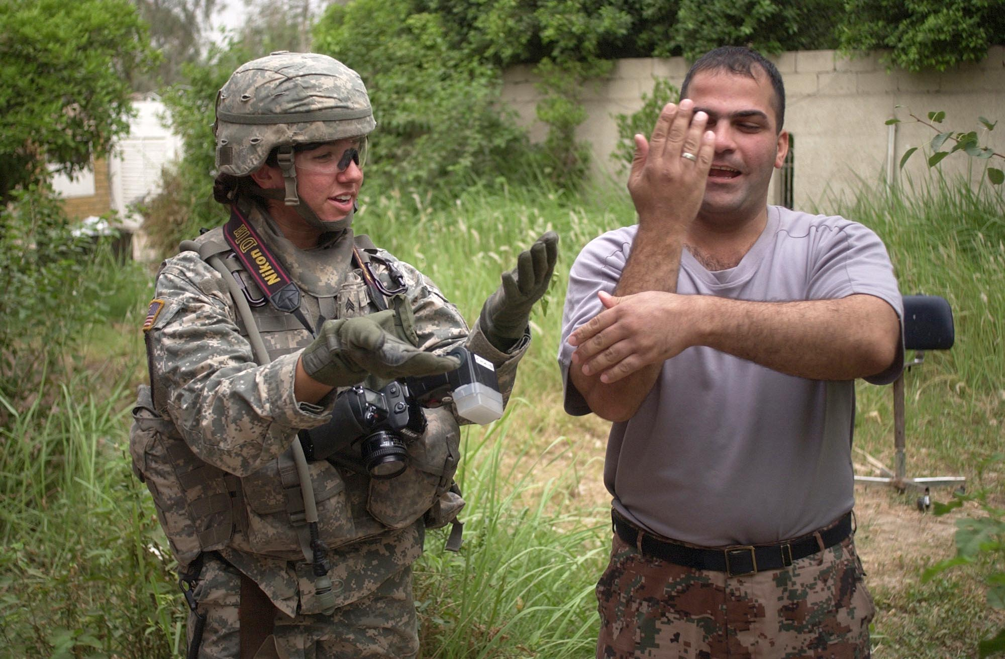 U.S. Army Sgt. Tierney Nowland teaches the Macarena to an Iraqi army soldier from 2nd Battalion, 1st Brigade during a break from a cordon and search mission in Ameriyah, Iraq, May 16, 2007. Nowland is a combat cameraman with the 982nd Signal Company out of Wilson, N.C.. (U.S. Army photo by Spc. Elisha Dawkins)